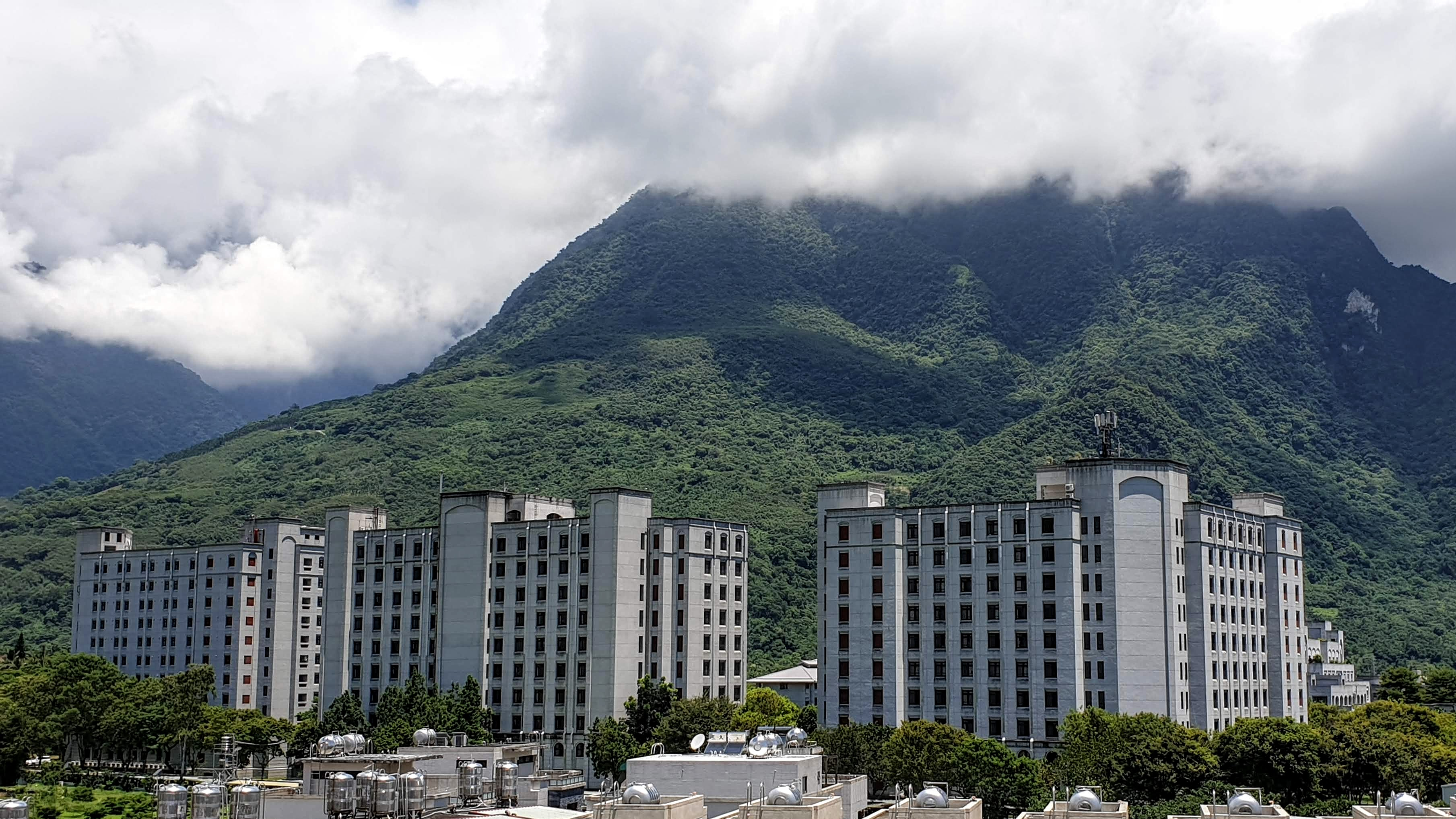 Dormitory of Tzu Chi University of Science and Technology, Taiwan.